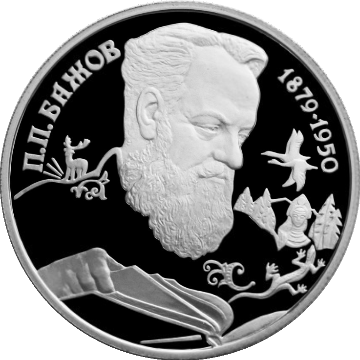 Russian 2 roubles coin (reverse side). Relief of Bazhov' portrait. 115 anniversary of the birth of Pavel Bazhov(1879-1950).